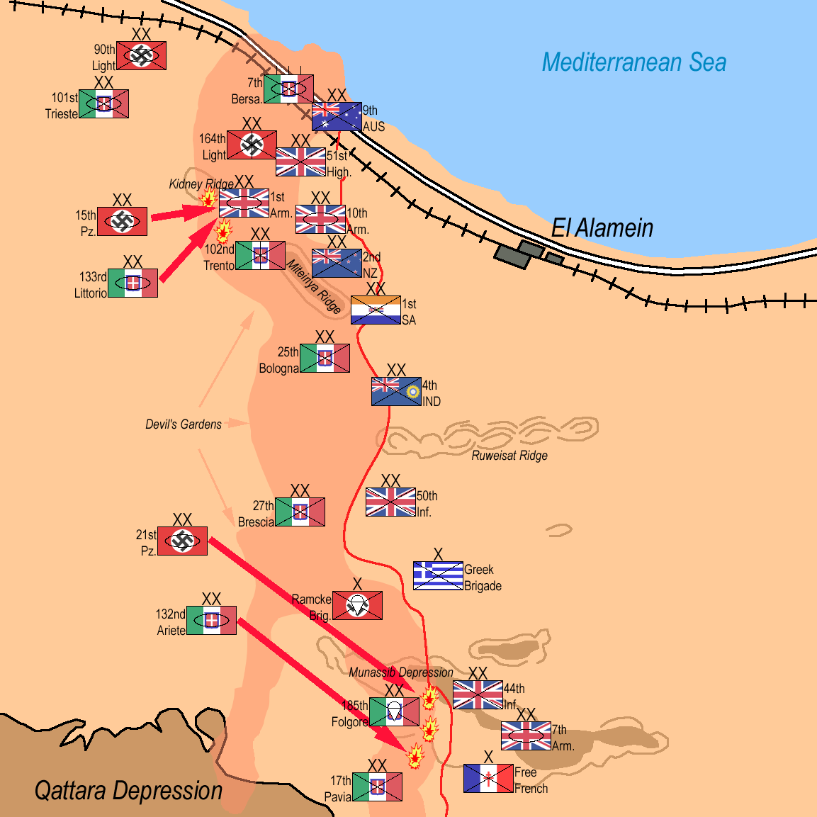 Second Battle of El Alamein, The Axis Armoured Divisions counterattack: 6pm- October 24th, 1942